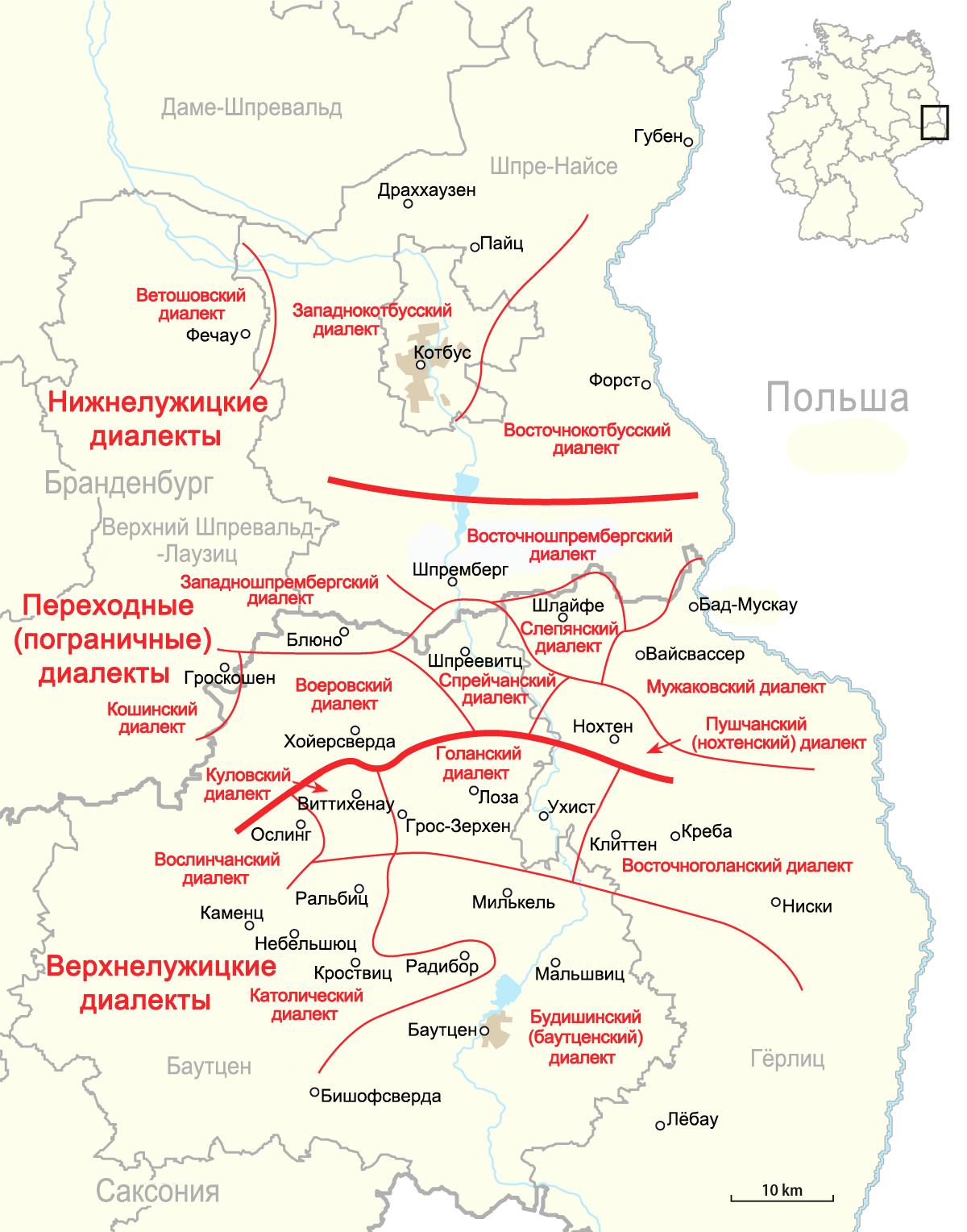 Map of the Sorbian dialects, russian version